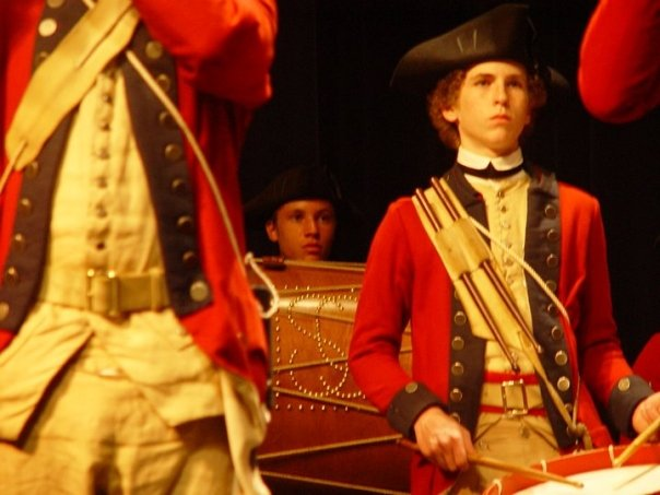 Performer in "Drummers Call" show from 2007 at the Kimball Theatre in Colonial Williamsburg.